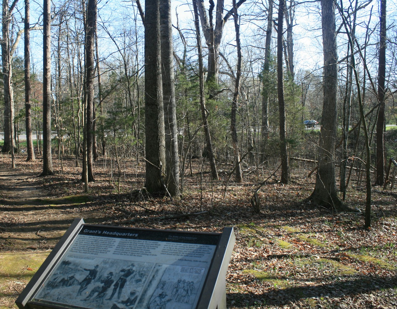 Grant's headqusrters near Orange Ternpike, May 5 1864, Wilderness